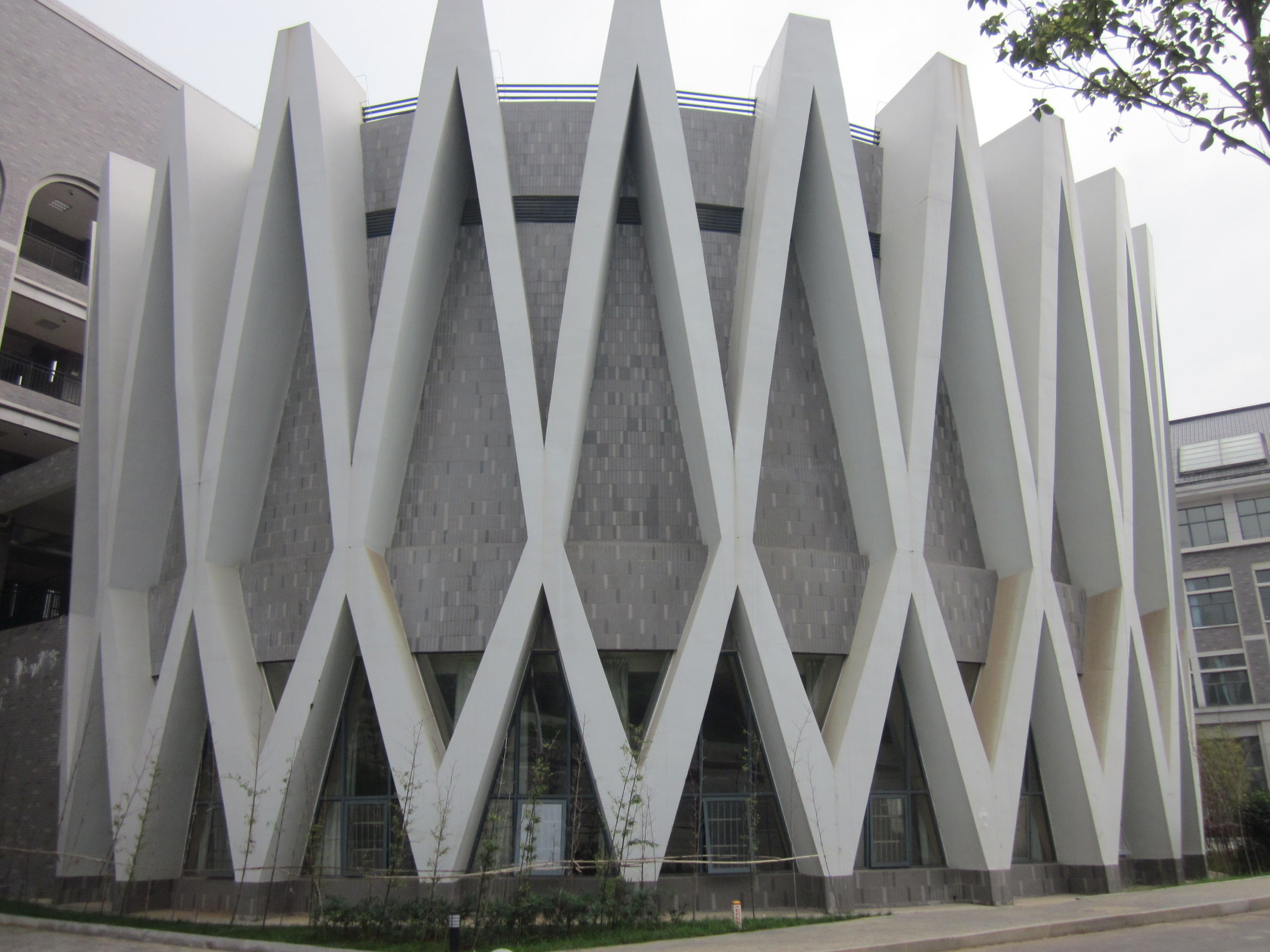 Hunan First Normal University (simplified